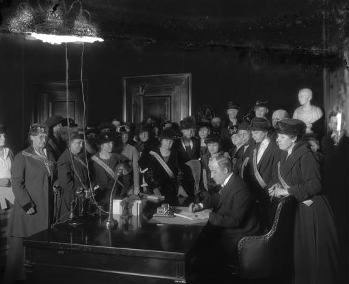 Governor Edwin P. Morrow signs Kentucky's ratification of the Nineteenth Amendment - 1920